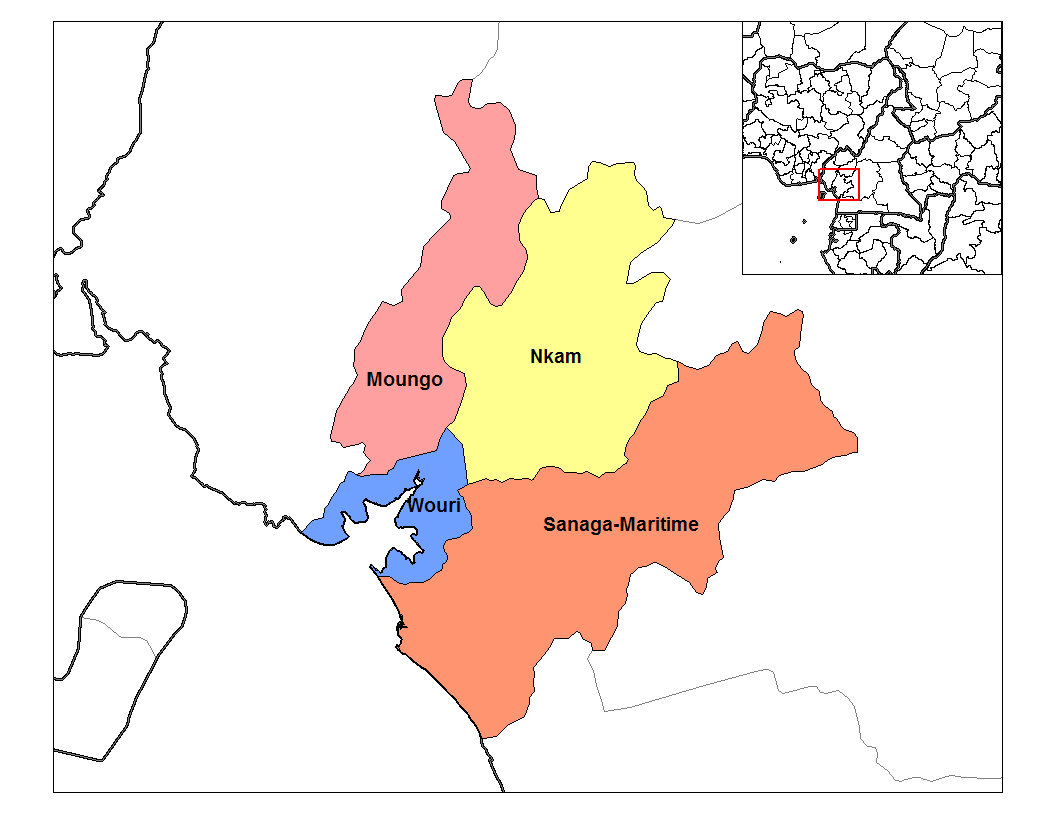 Map of the divisions of Littoral province in Cameroon. Created by Rarelibra 19:55, 1 September 2006 (UTC) for public domain use, using MapInfo Professional v8.5 and various mapping resources.